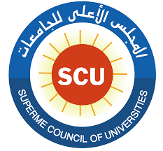 المجلس الاعلى للجامعات